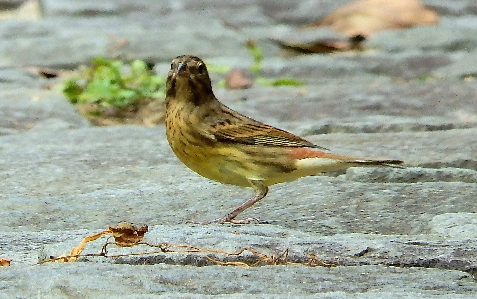 Chestnut Bunting (Emberiza rutila), female